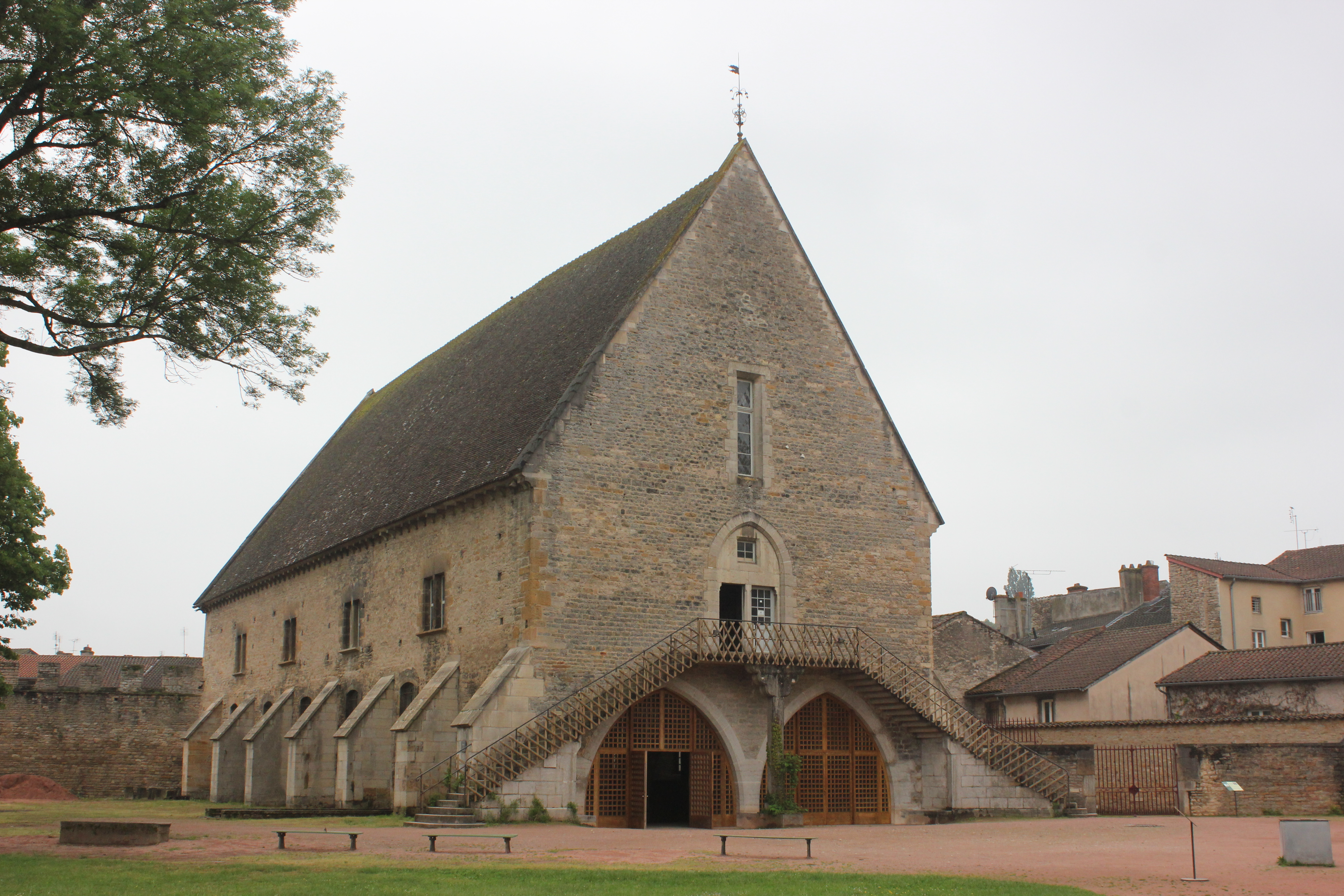 Cluny - former benedictine abbey